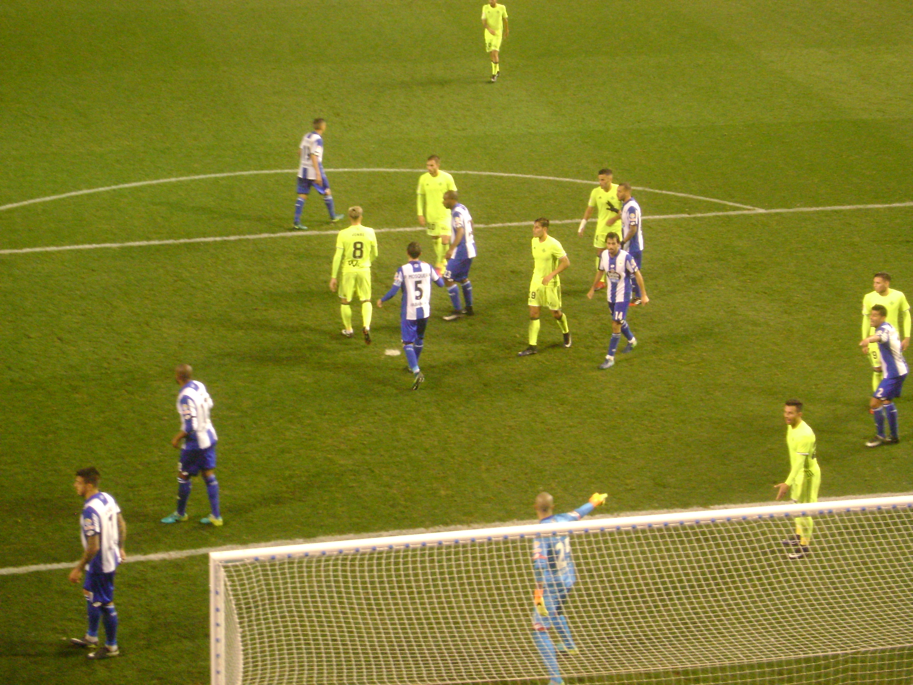 Depor - Betis